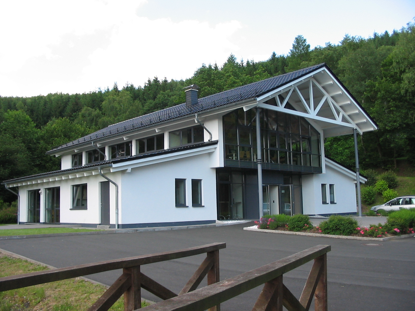 ev. church Wilden